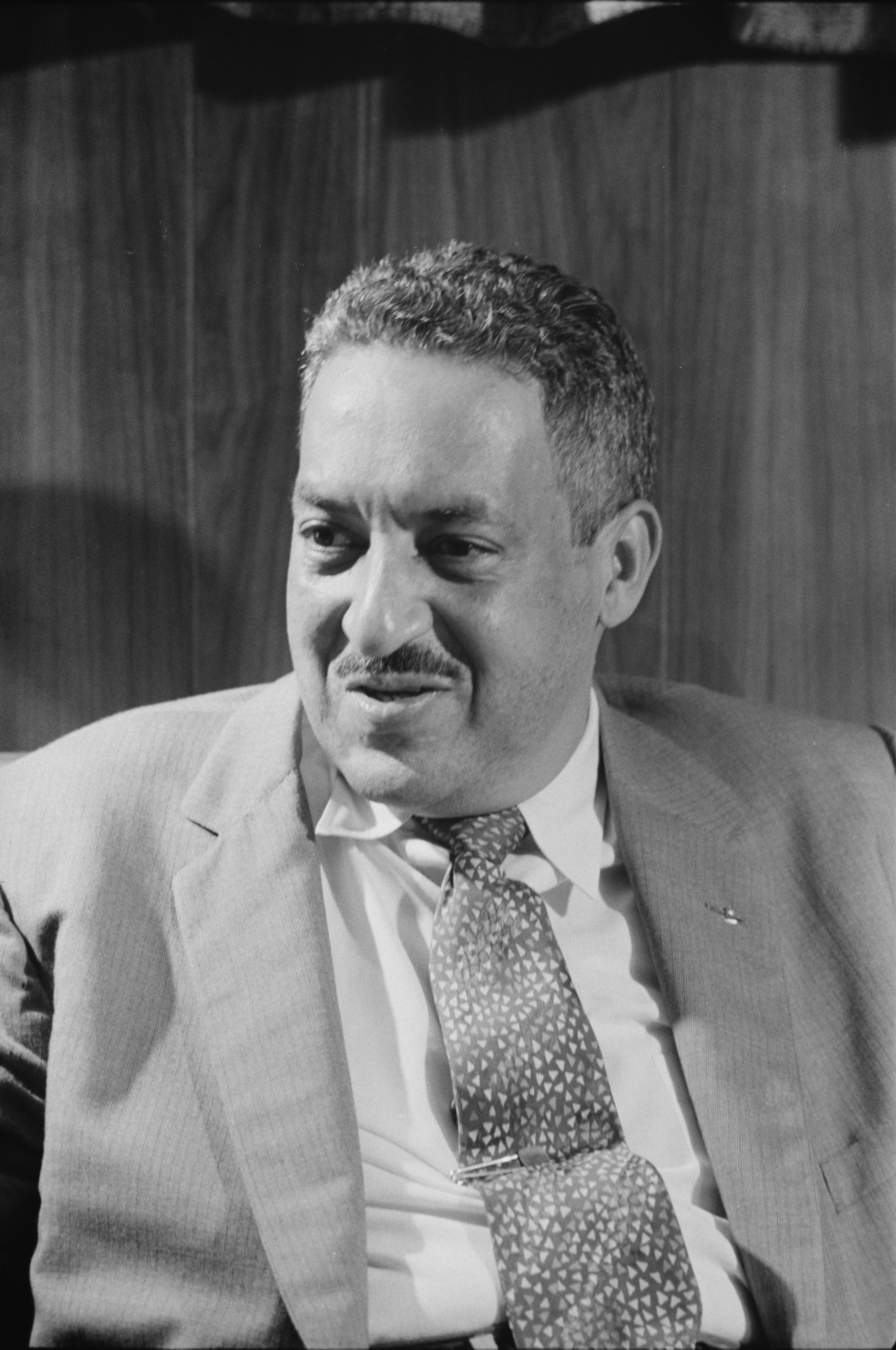 Future American Supreme Court justice Thurgood Marshall, then an attorney for the NAACP.